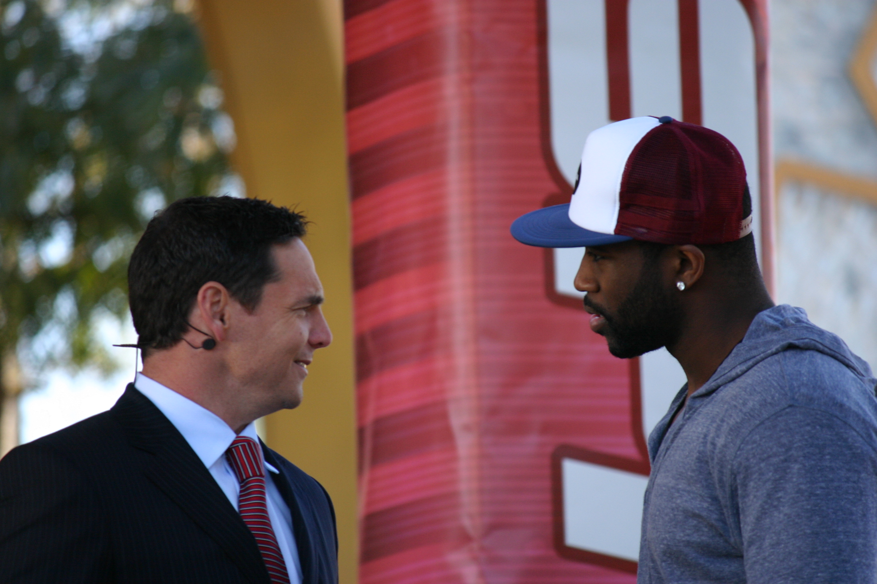 Jay Feely and Darrell Revis during the broadcast of ESPN First Take at ESPN The Weekend, February 26, 2010